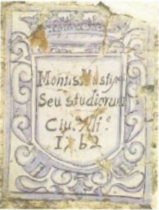 Plaque discovered in 1997 on a lintel on the first floor of Palazzo prelatizio, Altamura, where the University of Altamura was located